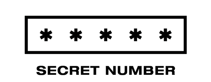 Secret Number Logo by Vine Entertainment